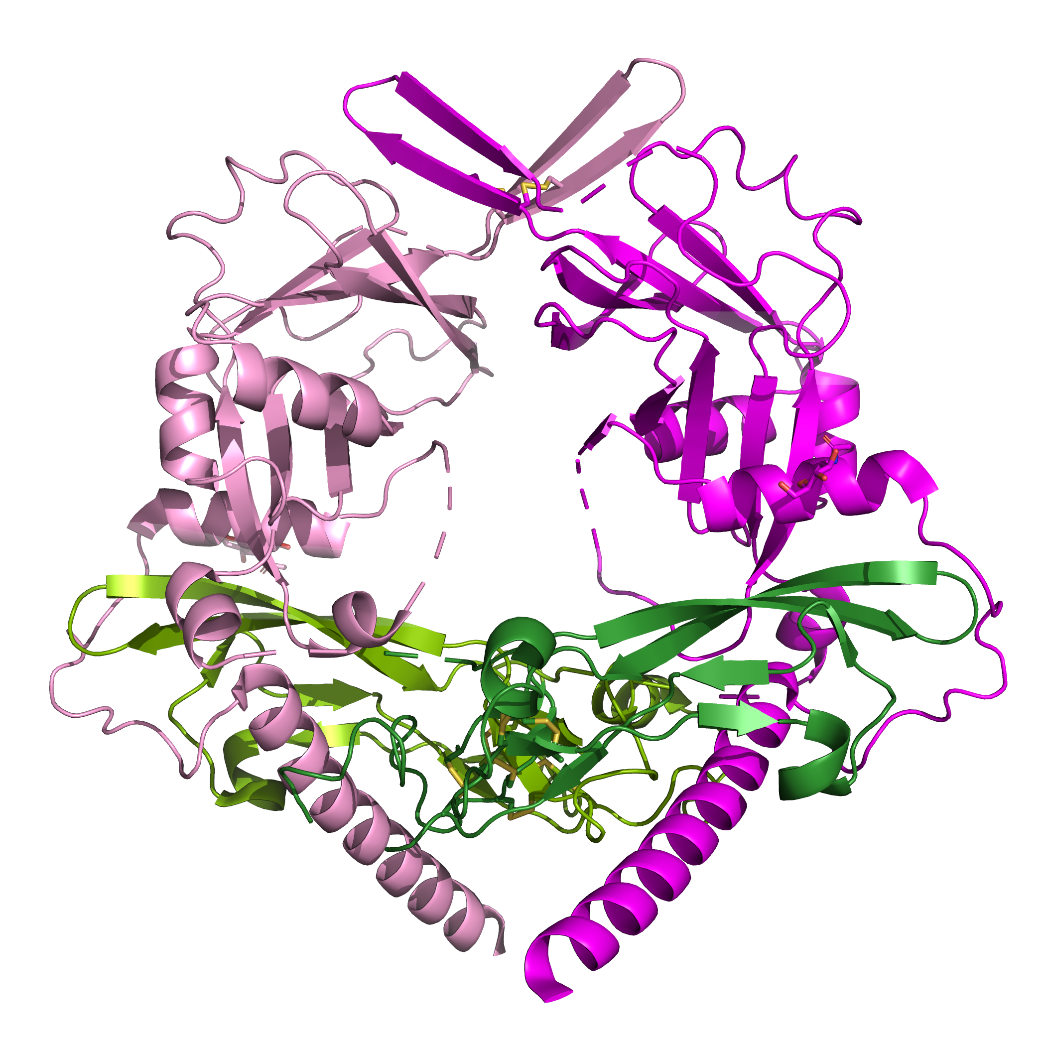 TGFb forms a homodimer where the actual TGFb growth factor (green colors) is surrounded by a cage formed by the prodomain, called LAP (magenta colors). The two growth factors of the homodimer (light and dark green) are hold together by several disulfid bridges in the central cysteine knot. The cage of the two LAP proteins (birght and dark magenta) is hold together at its uppest part by a disulfid bridge. The helices in the lowest part are coupled to other proteins (not shown) by additional disulfid bridges. Based on PDB ID 3VI4.